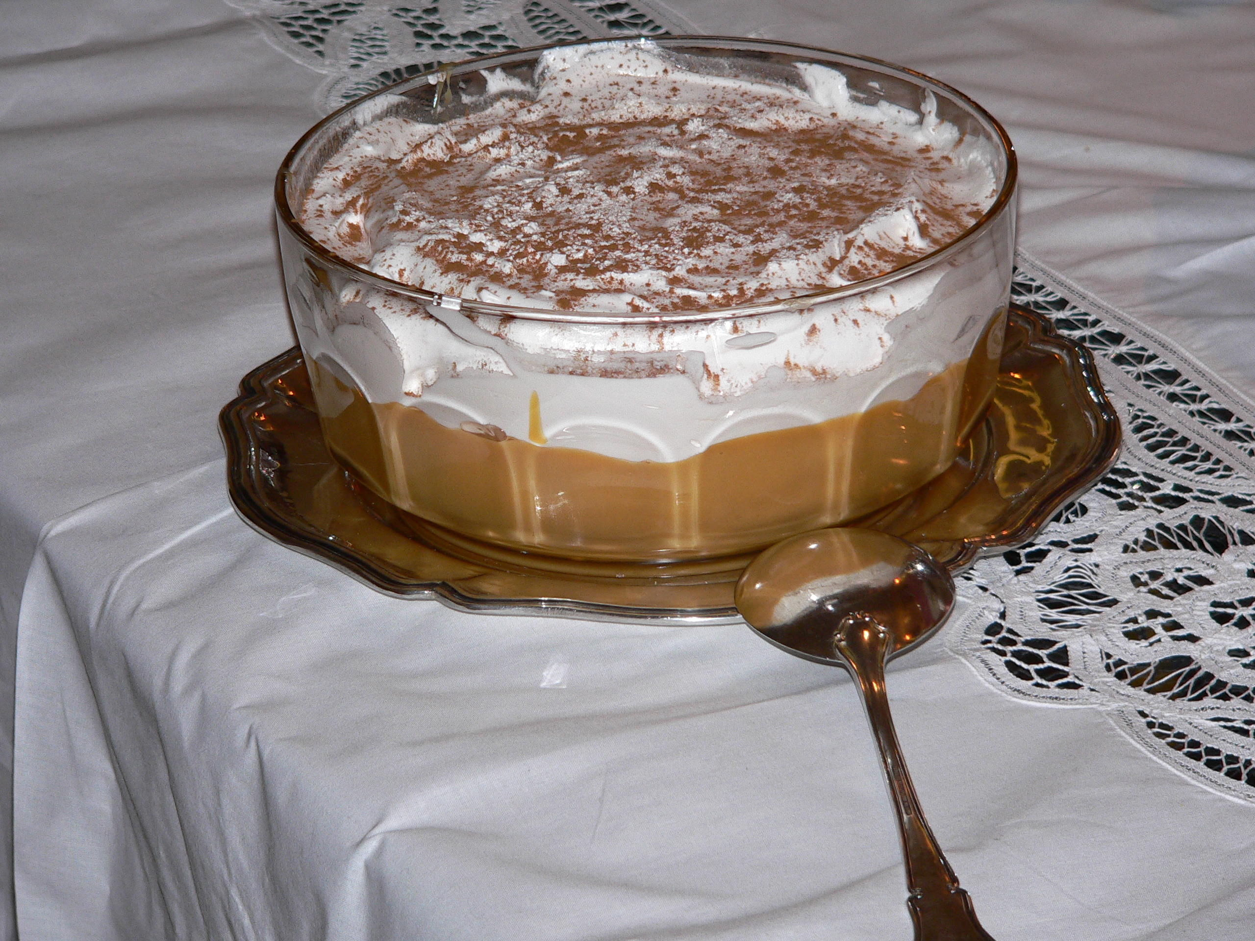 Description: Peruvian cuisine Name: Suspiro de limeña Country : Peru Photographer: © Manuel González Olaechea y Franco Shot date : January, 5th , 2007